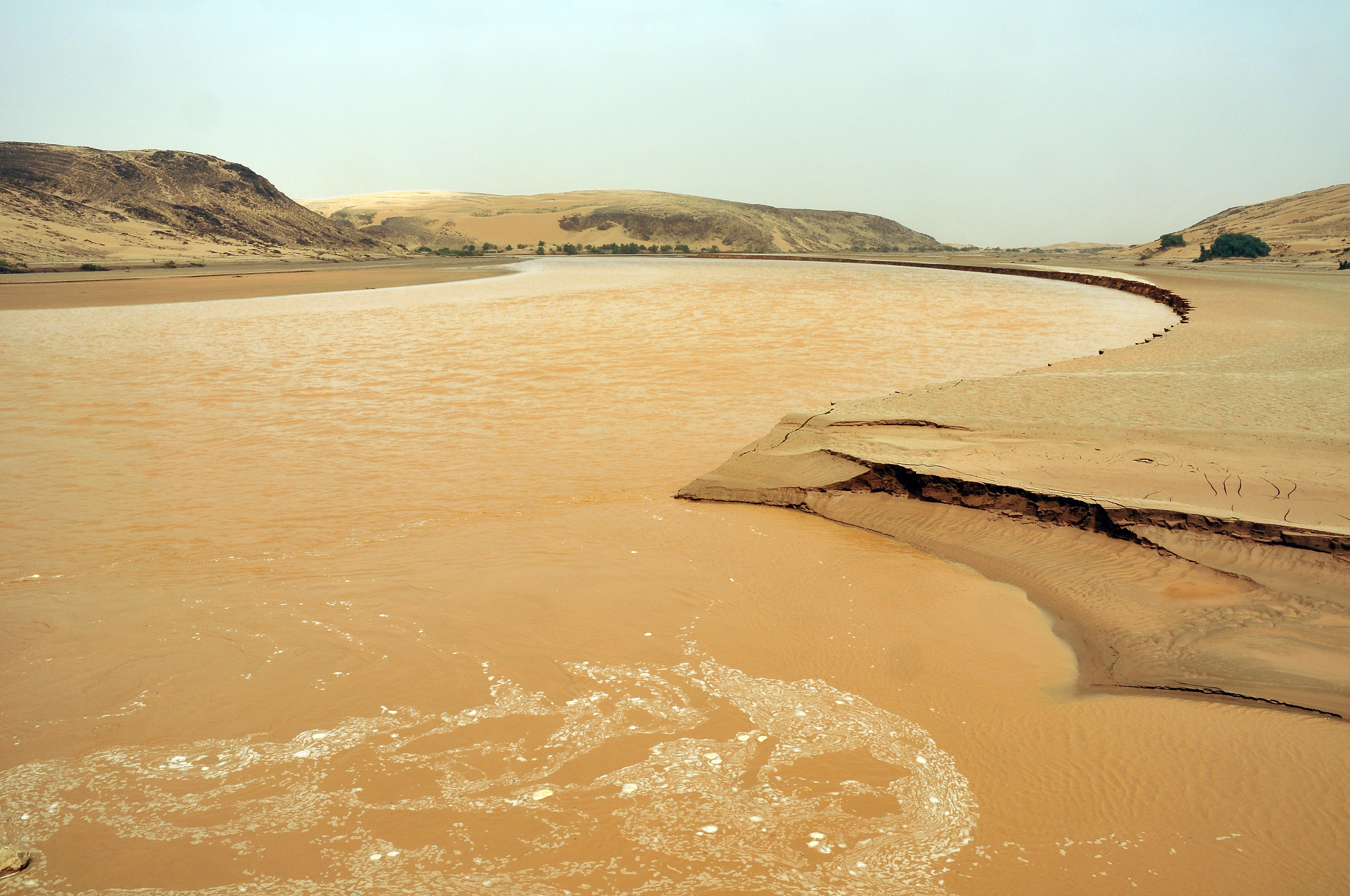 The wadi Sawra (at the route N-6 crossing, near Bordj el-Kreneg), Adrar, Algeria